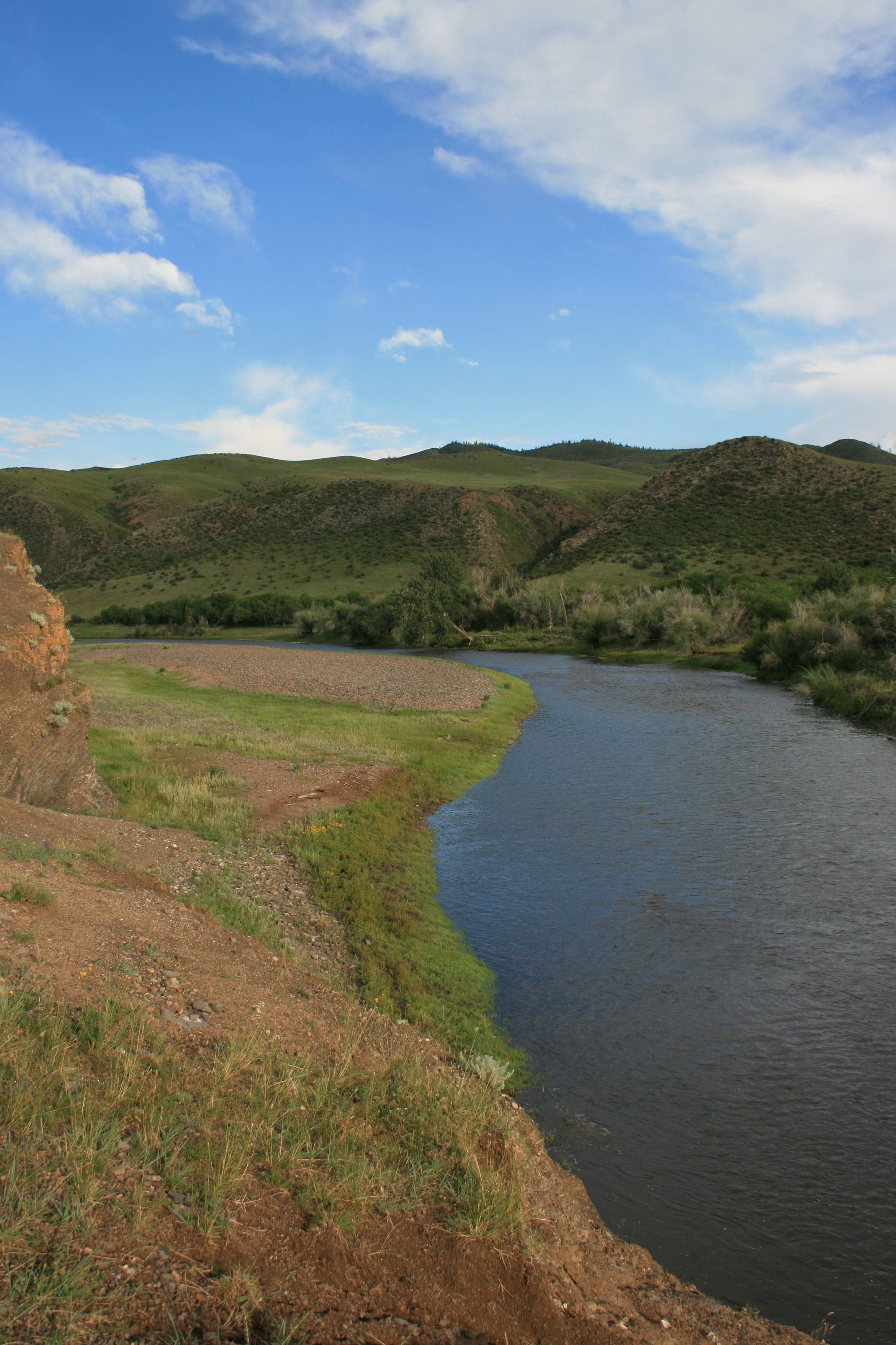 Hanuin Gol. Picture taken on the right bank, some km downwards of the bridges (one wooden, one concrete) near Bayan-Agt (at least that is what it looks like in the Avto Zamyn Atlas). Direction of view is roughly southward.